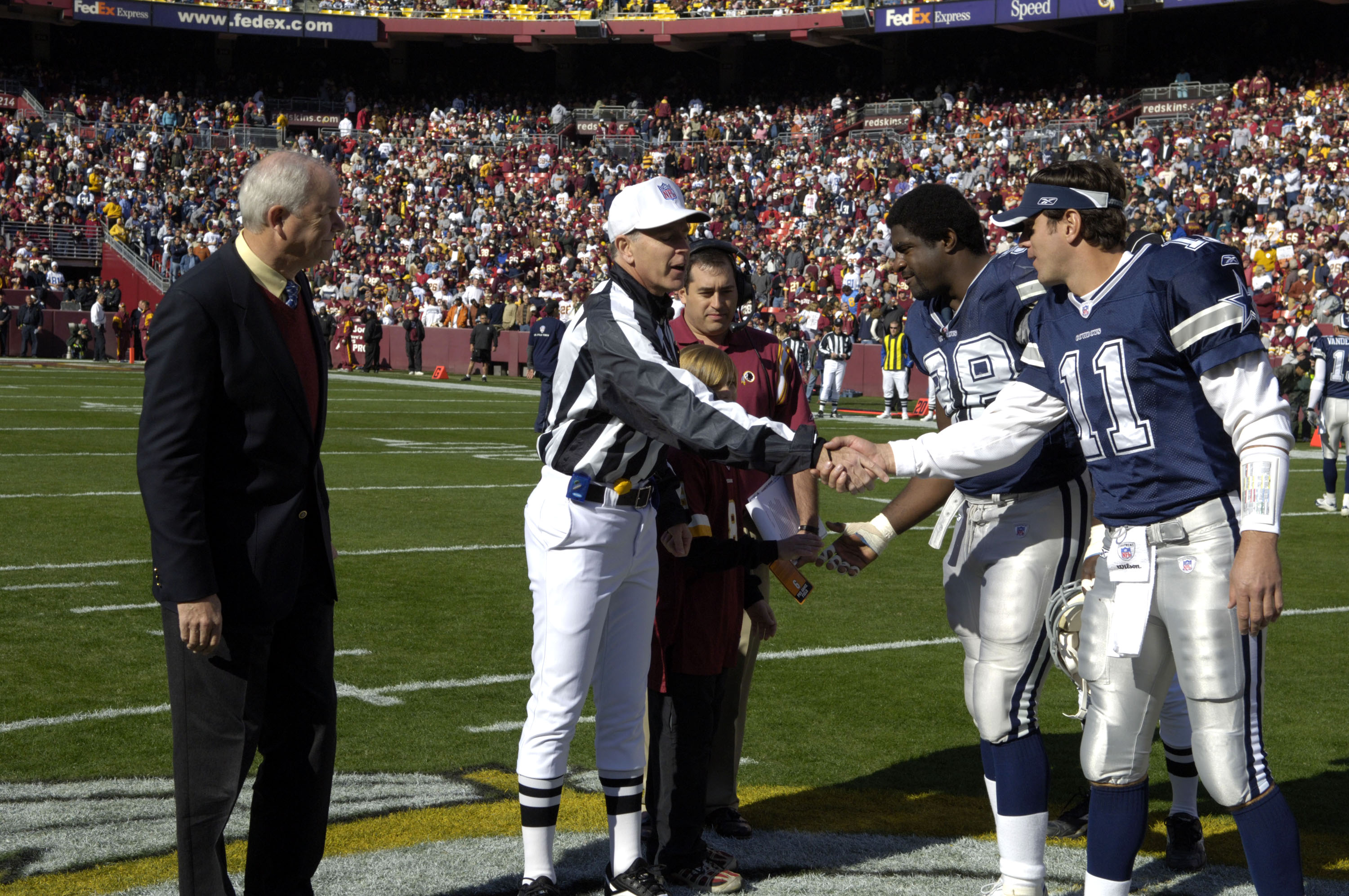 Secretary of the Air Force Michael W. Wynne officiates the coin toss for the National League Football game between the Washington Redskins and the Dallas Cowboys at FedEx Field in Landover, Md. on Nov. 5. This was just one of several activities that took place during Air Force Appreciation Day there. (U.S. Air Force photo/Tech. Sgt. Cohen Young)